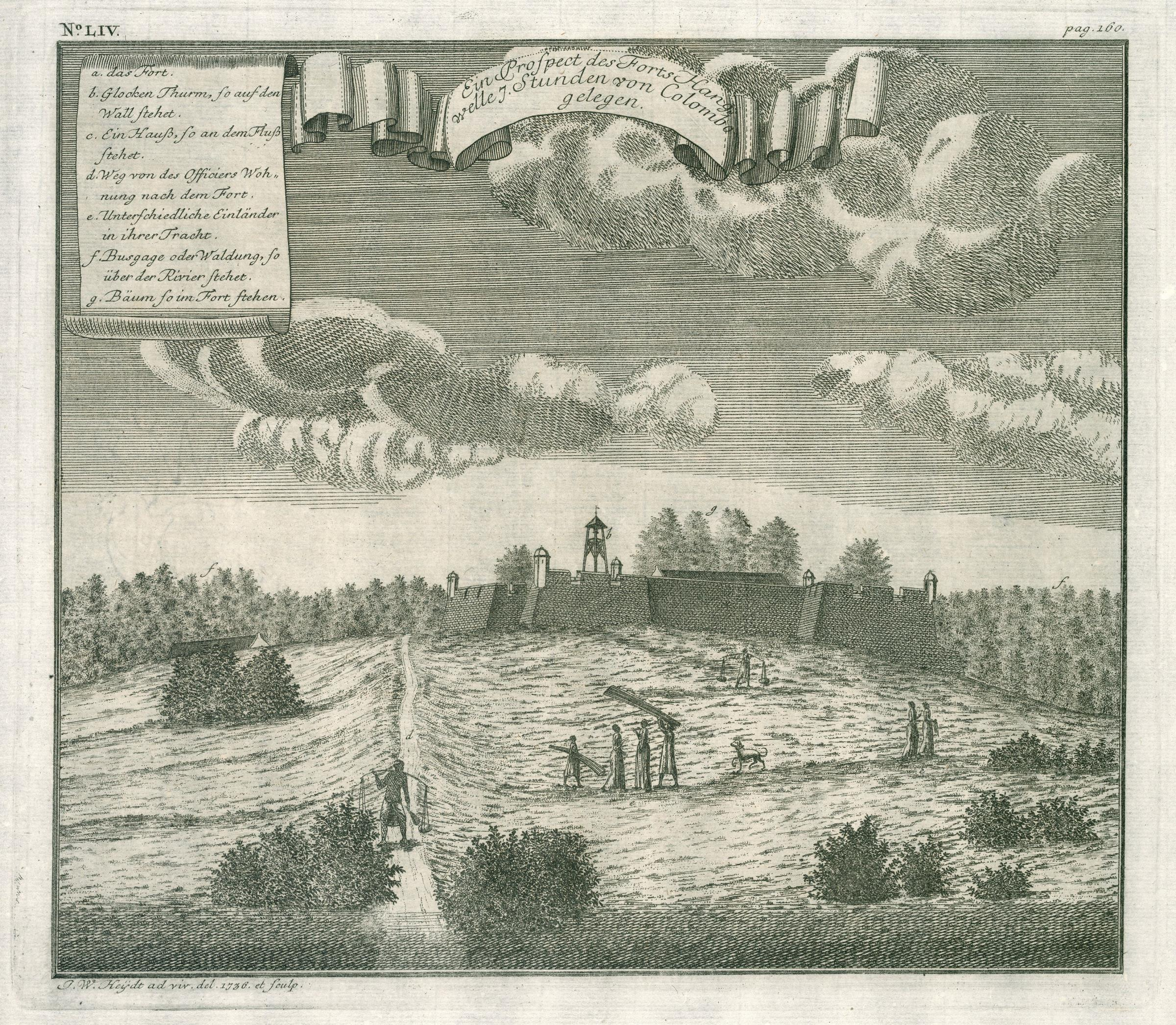 View of the Hangwelle fort. Ein Prospect des Forts Hangwelle 7. Stunden von Colombo gelegen. Top left: No: LIV. Top right: pag. 160. Key: a. das Fort. / b. Glocken Thurm, so auf den Wall stehet. / c. Ein Hauß, so an dem Fluß stehet. / d. Weg von des Officiers Wohnung nach dem Fort. / e. Unterschiedliche Einländer in ihrer Tracht. / f. Busgage oder Waldung, so über der Rivier stehet. / g. Bäum so im Fort stehen.